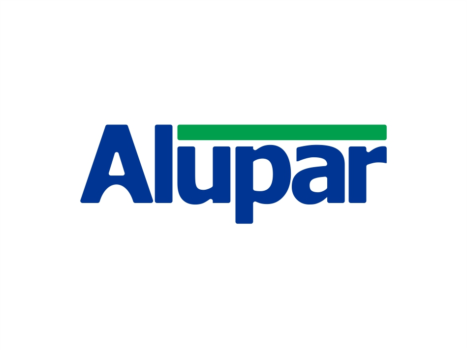 Alupar